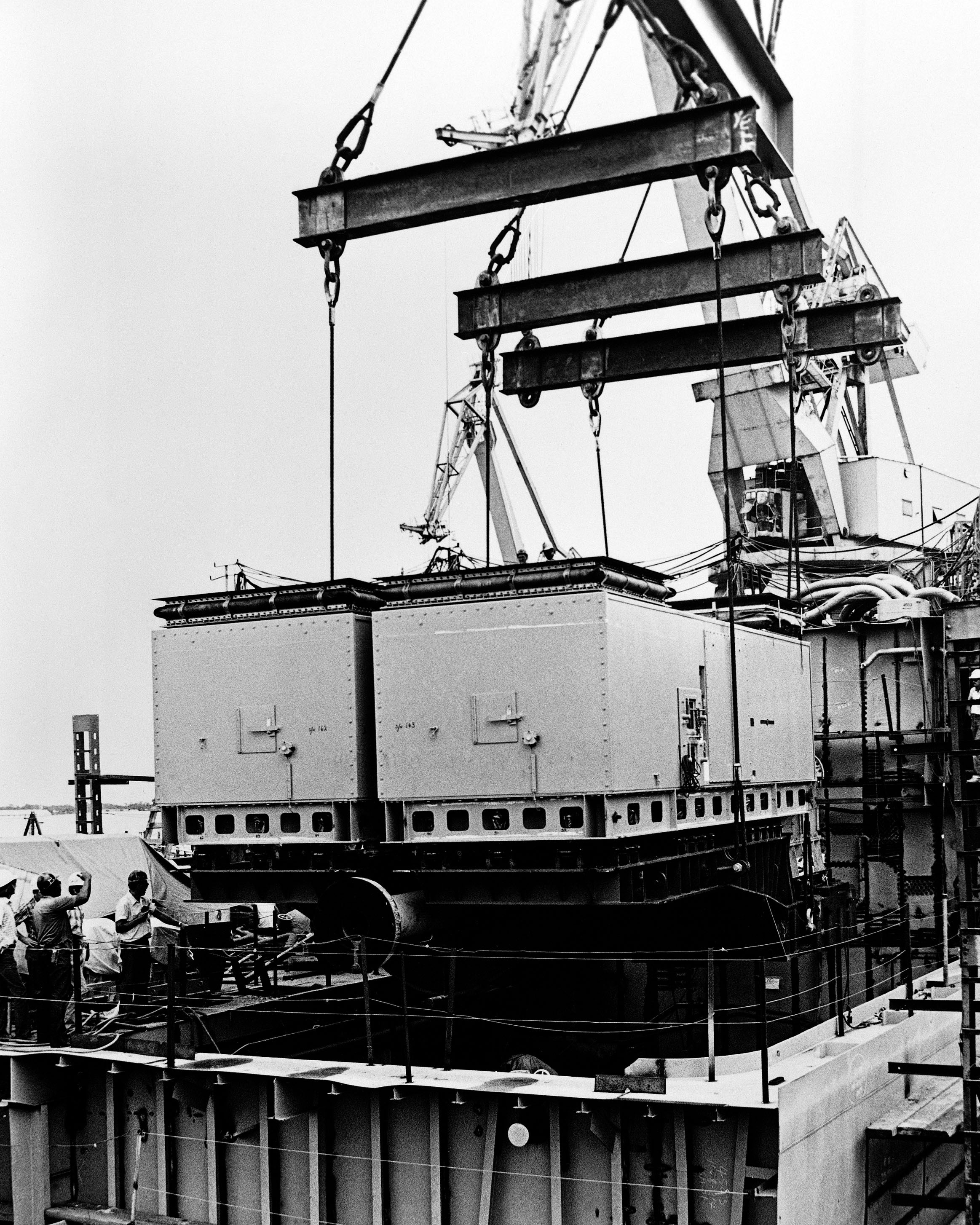 A heavy lift lowers the main propulsion module into the hull of the Aegis guided missile cruiser CG-52 during construction at Ingalls Shipbuilding. The module consists of two General Electric LM 2500 gas turbine engines and a Westinghouse gear reduction ... Location: PASCAGOULA, MISSISSIPPI (MS) UNITED STATES OF AMERICA (USA)